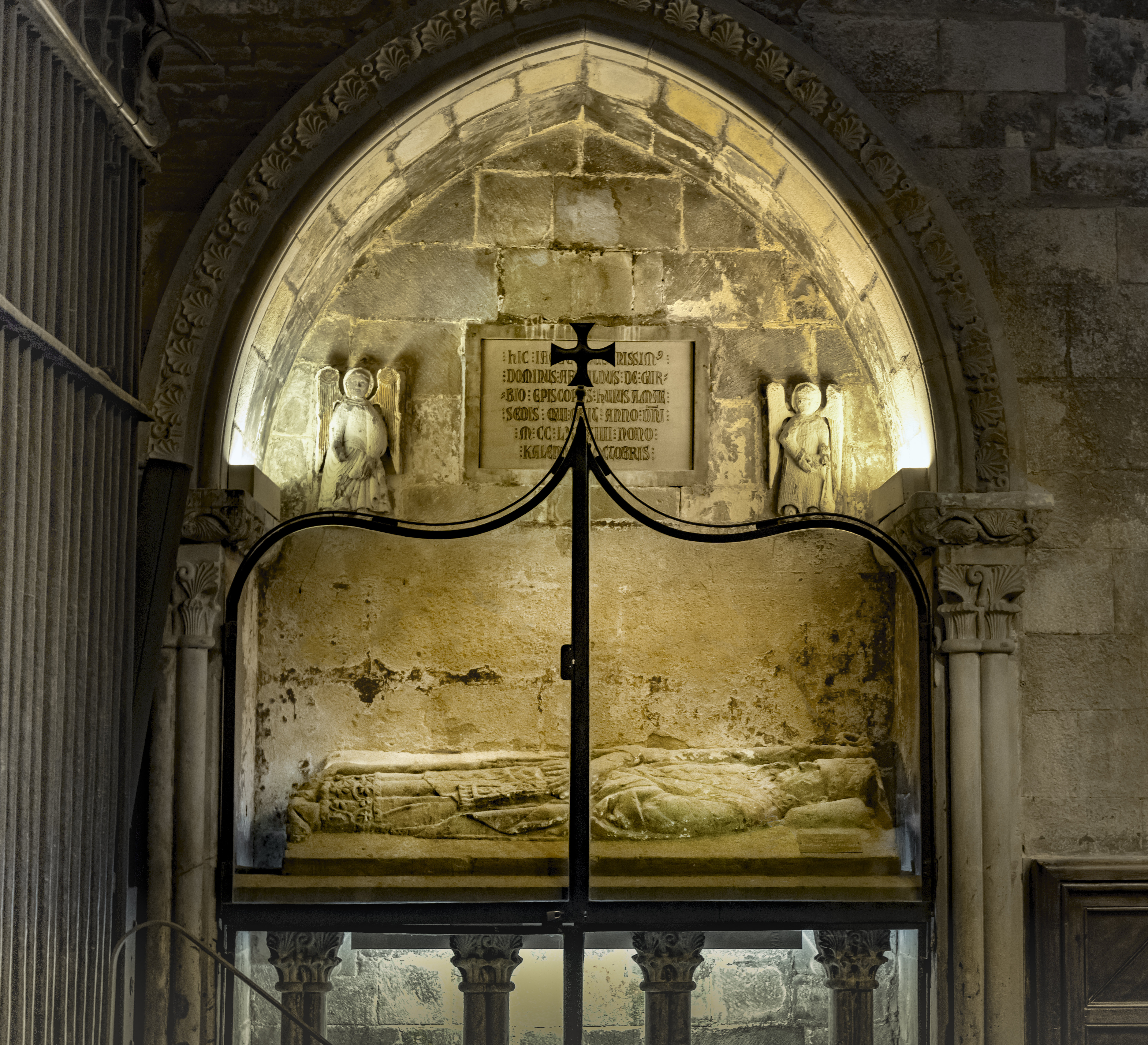 The Cathedral of the Holy Cross and Saint Eulalia in Barcelona. Chapel of saint Lucia. Bishop Arnau de Gurb tomb